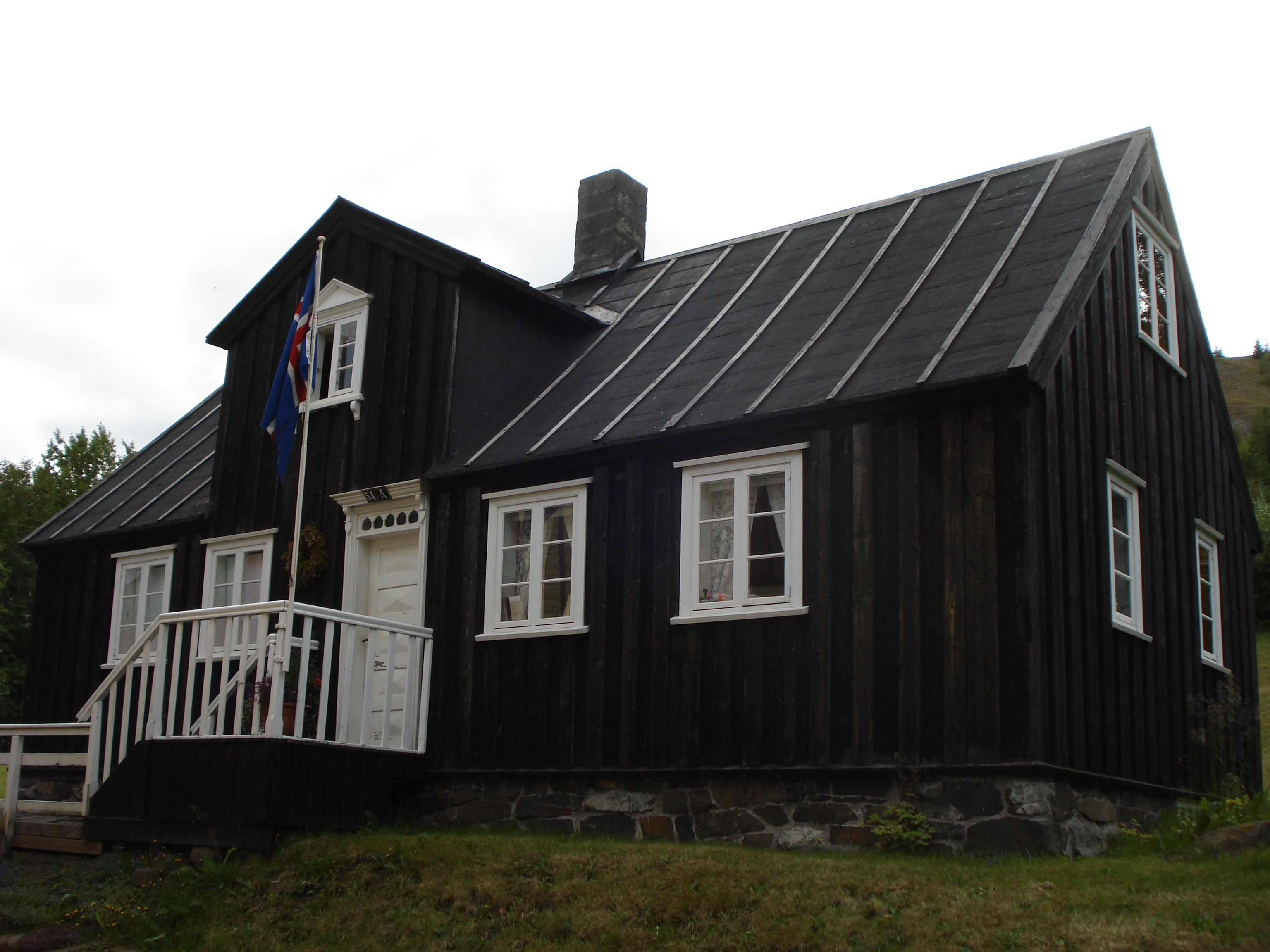 House of Jón Sveinsson, Nonnahúsið, Akureyri, Iceland